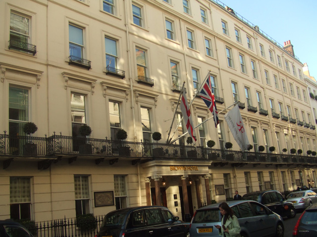 Browns Hotel, Mayfair, London, England